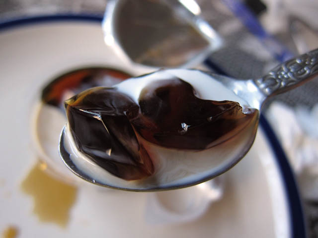 Coffee jelly is a popular gelatin dessert in Japan. In the most common recipe, the primary ingredient is black coffee, with cream and gum syrup served as condiments to suit individual tastes.